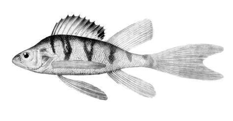 European perch (Perca fluviatilis) with strange fins from Yenisei river